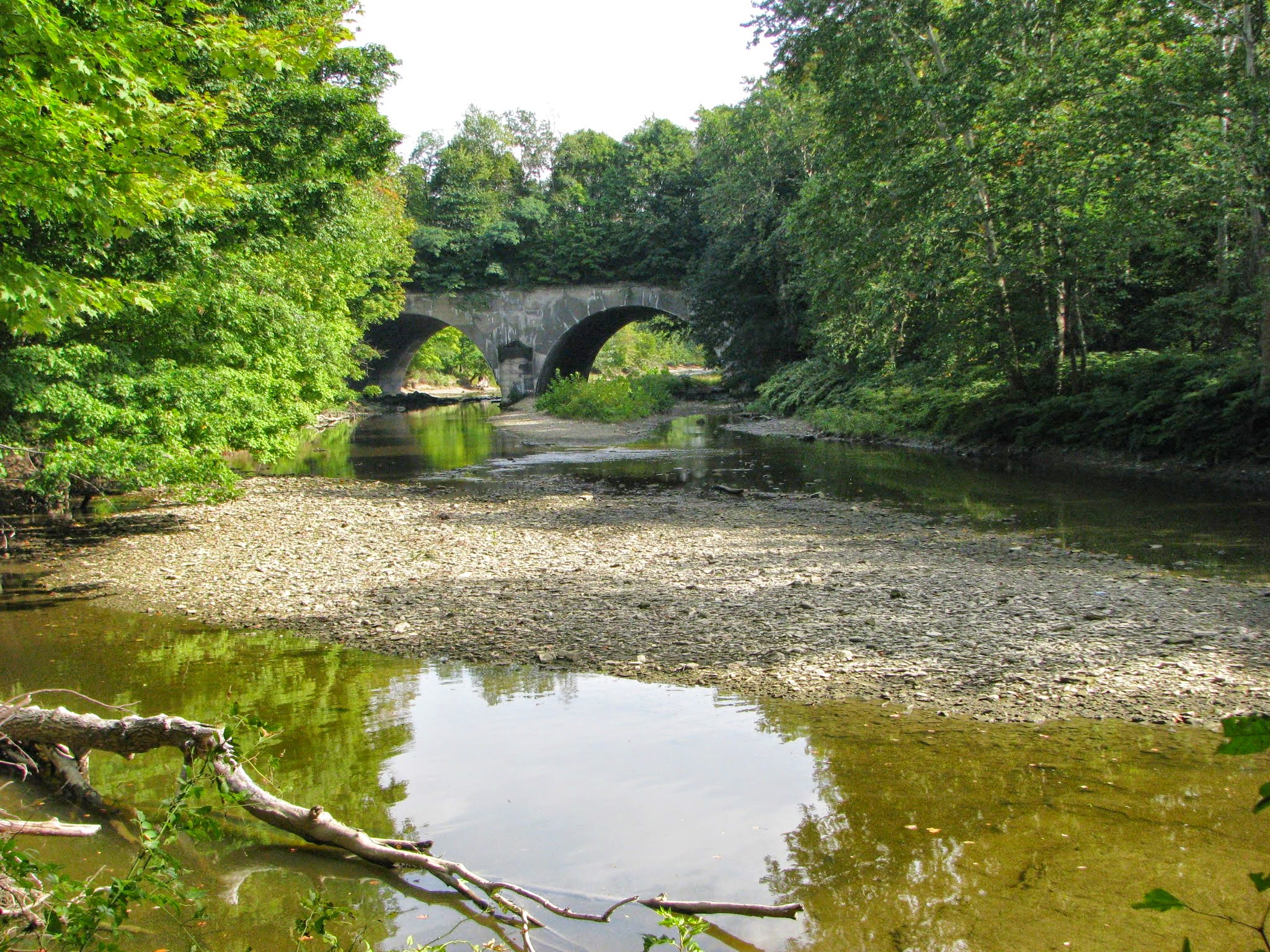 Ashtabula Train Bridge Disaster Site